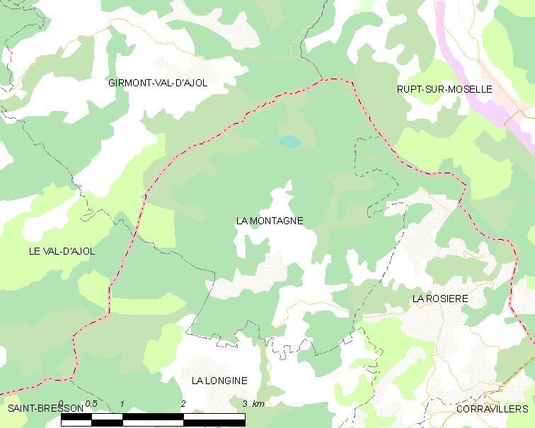 Map of French municipality